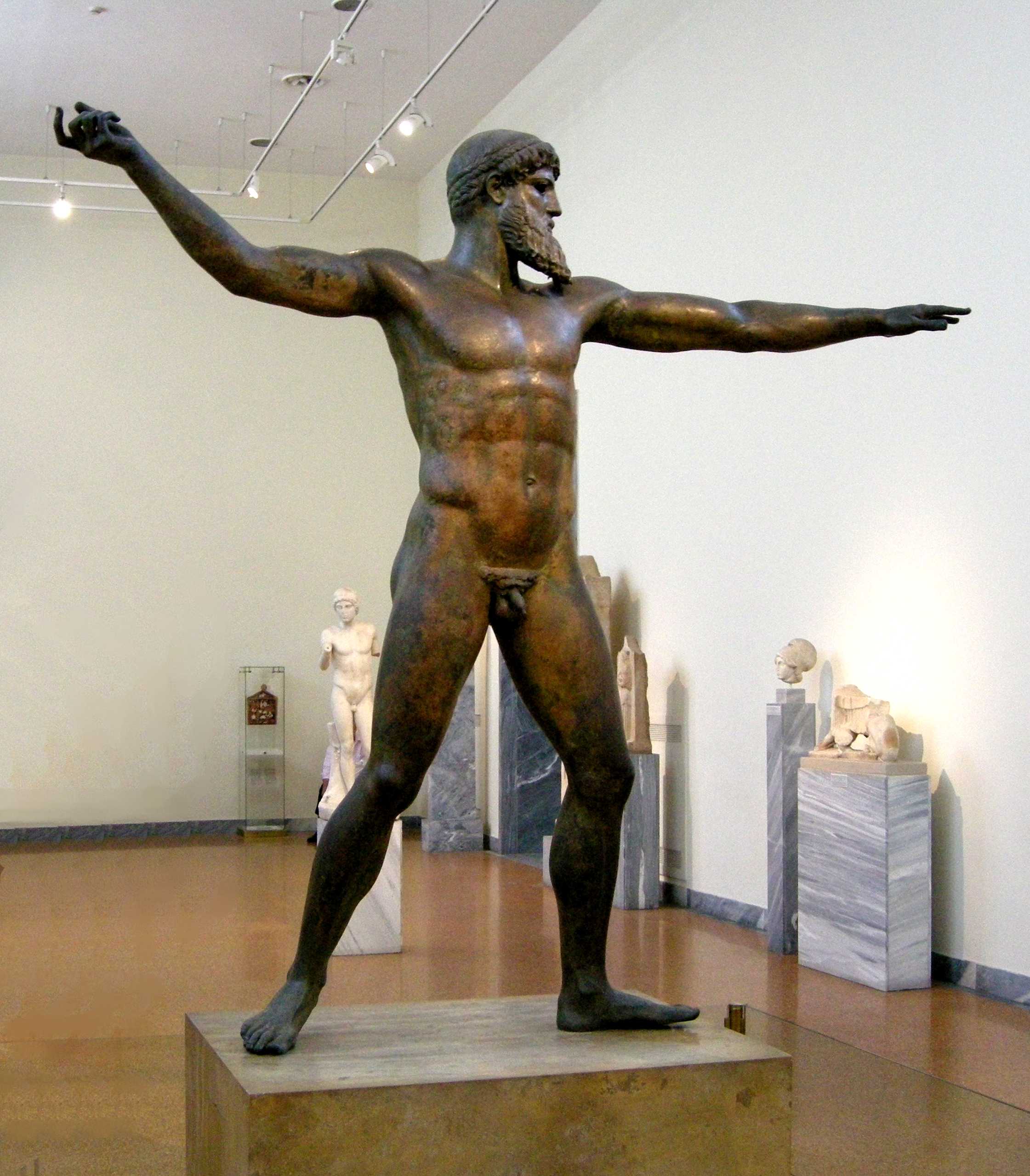 God of Cape Artemision